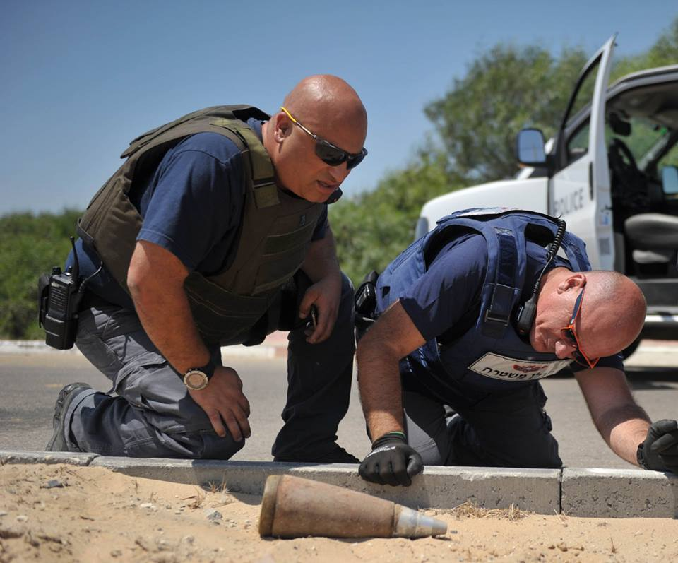 Israeli Police bomb disposal unit